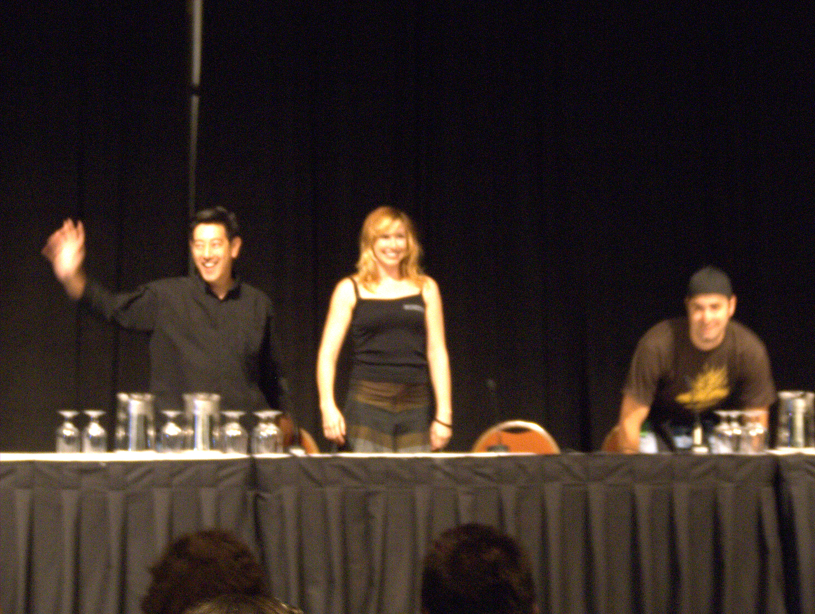 myth busters, Grant Imahara, Kari Byron and Tory Belleci in Dragon Con 2006